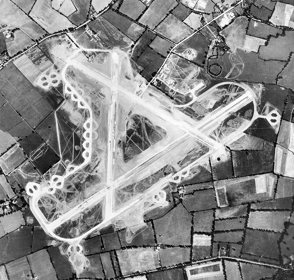 Aerial photograph of RAF Blakehill Farm airfield. The technical site and barrack sites are to the right (east) of the airfield, 17 July 1943. Photograph taken by 7th Photographic Reconnaissance Group, sortie number US/7PH/GP/LOC3. English Heritage (USAAF Photography).